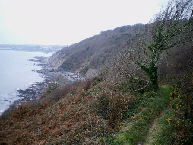 Bodigga Cliff from the coast path Bodigga Cliff and the woods above it are under the care of the National Trust.